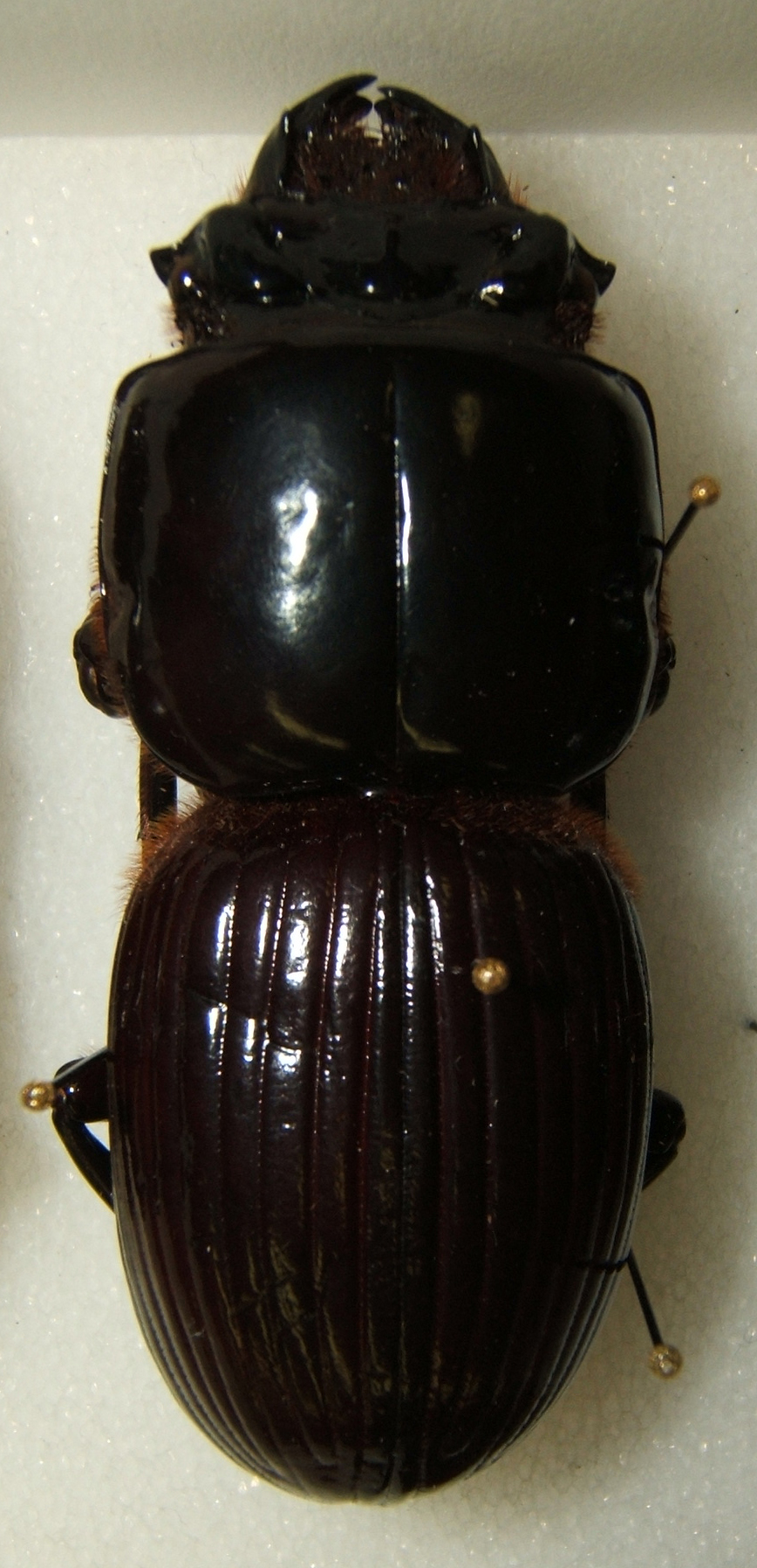 Proculus mniszechi adult taken by Shawn Hanrahan at the Texas A&M University Insect Collection in College Station, Texas.